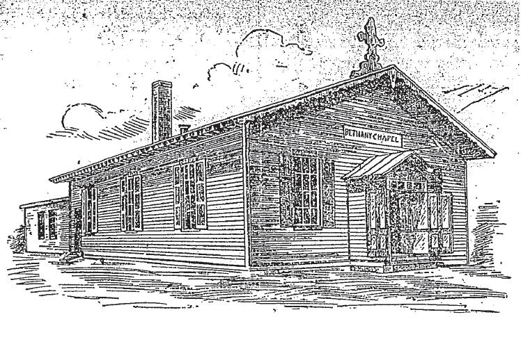 Bethany Chapel, on the corner of Thirteenth and C Streets, NW, in a drawing from the 8/15/03 Post. A mission of New York Avenue Presbyterian Church, it was built in 1874 and appears to have been razed for the construction of Federal Triangle. The chapel is also visible in this photo. The site is now occupied by the Ronald Reagan Building.